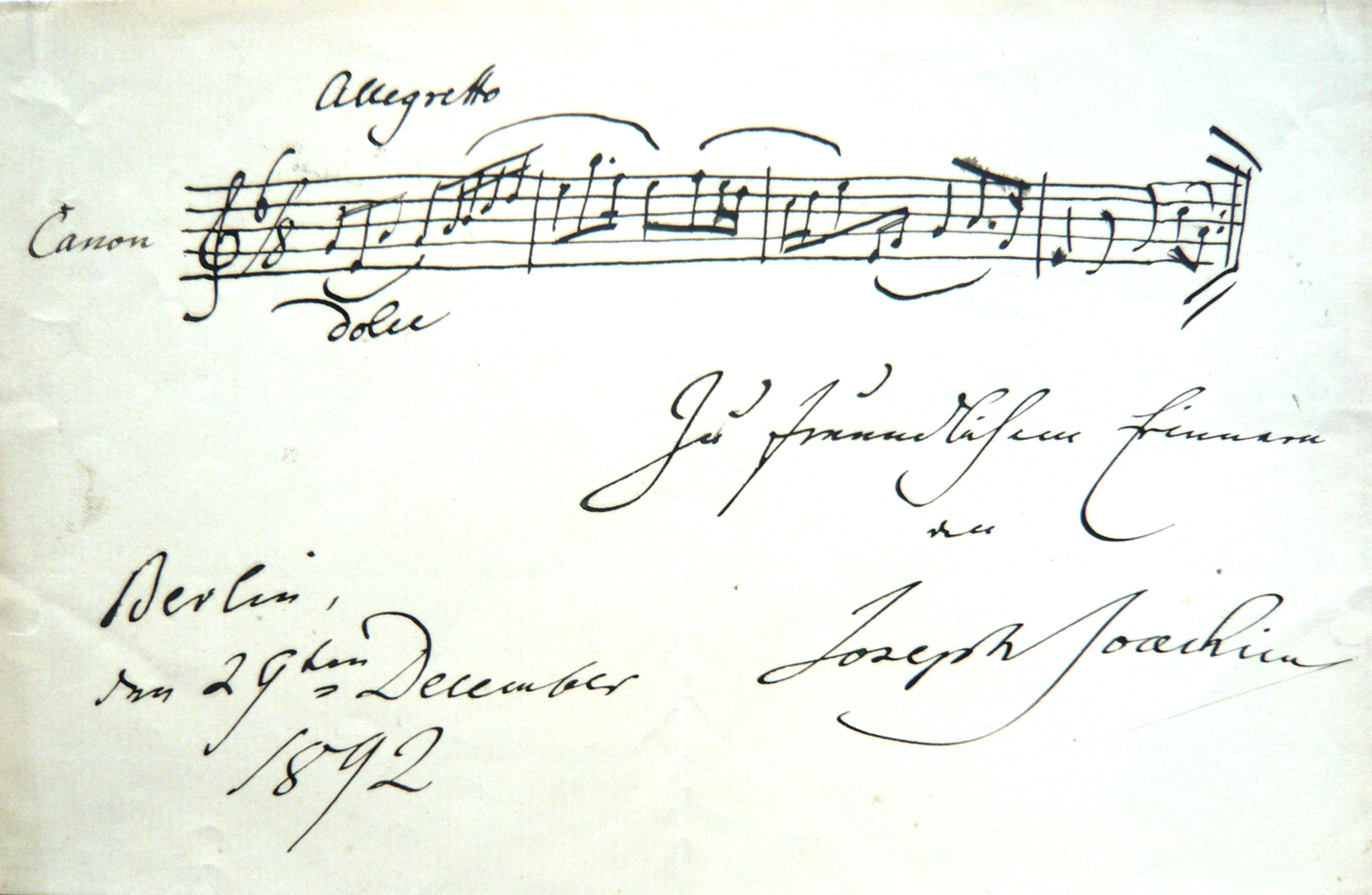 Sheet of Music Canon, Allegretto by Joseph Joachim, "Zur freundlichen Erinnerung", Berlin, den 29ten December 1892